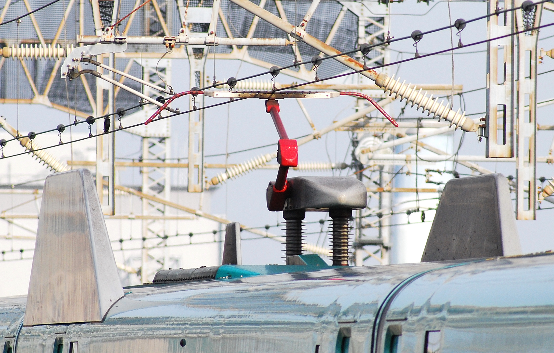 PS208 pantograph on a JR East E5 series shinkansen set